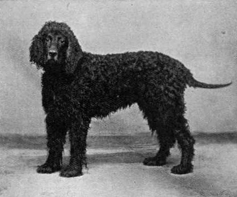 The Irish Water Spaniel "Shamus O'Flynn", published in 1903.